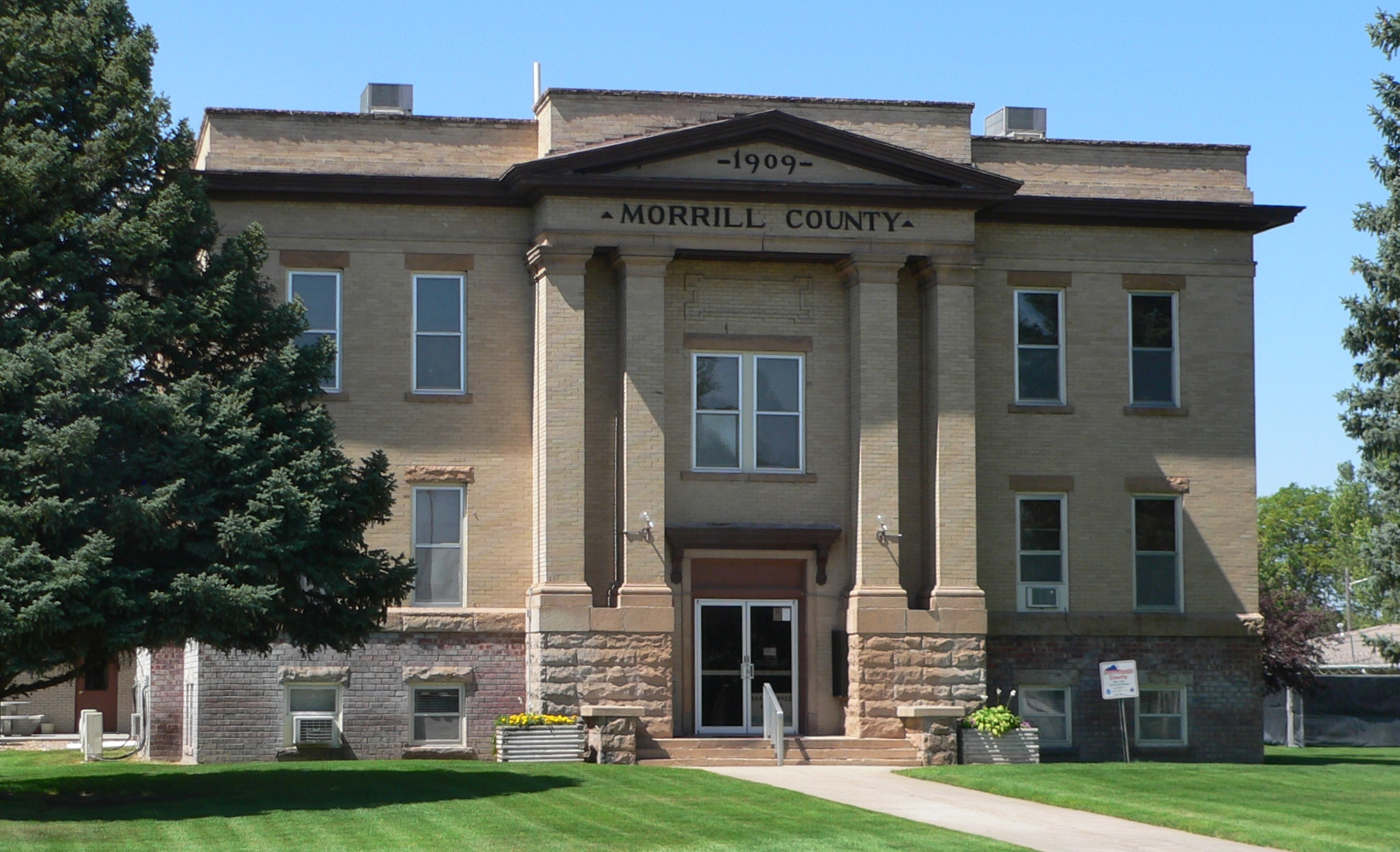 Morrill County Courthouse in Bridgeport, Nebraska; seen from the southeast. The Classical Revival building was constructed in 1909. It is listed in the National Register of Historic Places.